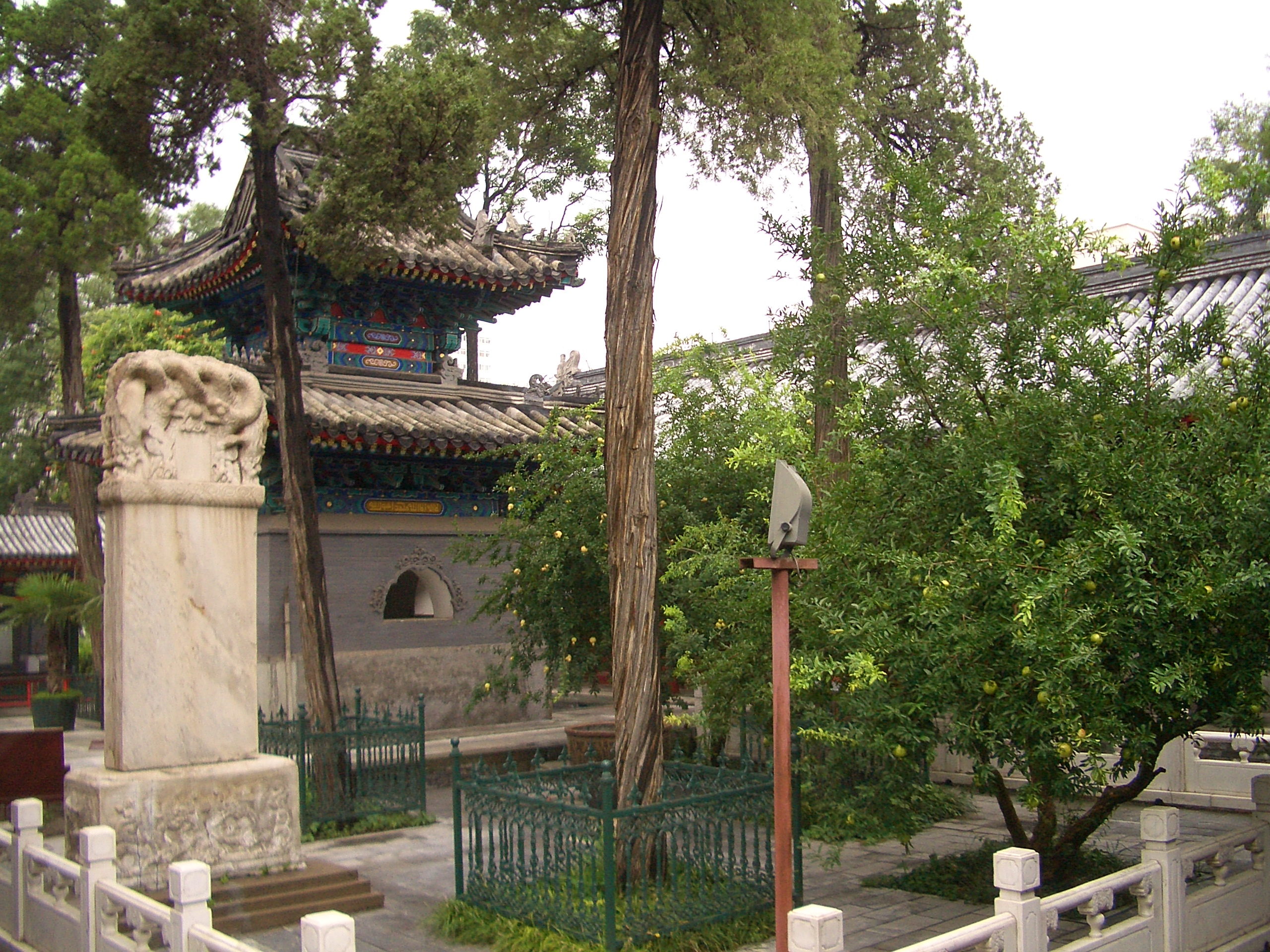 Niujie Mosque, Beijing